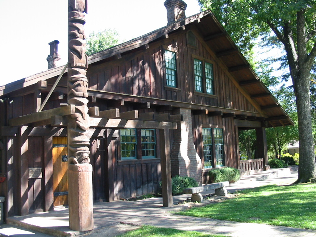 Grace Hudson's Sun House; designed by her husband and herself and built out of redwood in 1911 in the Craftsman style. The building is California Historical Landmark #296 and is on the National Register of Historic Places. It contains a mix of Hudson family and period furnishings and is a highlight of the Grace Hudson museum in Ukiah, California. Source Photographed by myself (Binksternet) in September 2007.